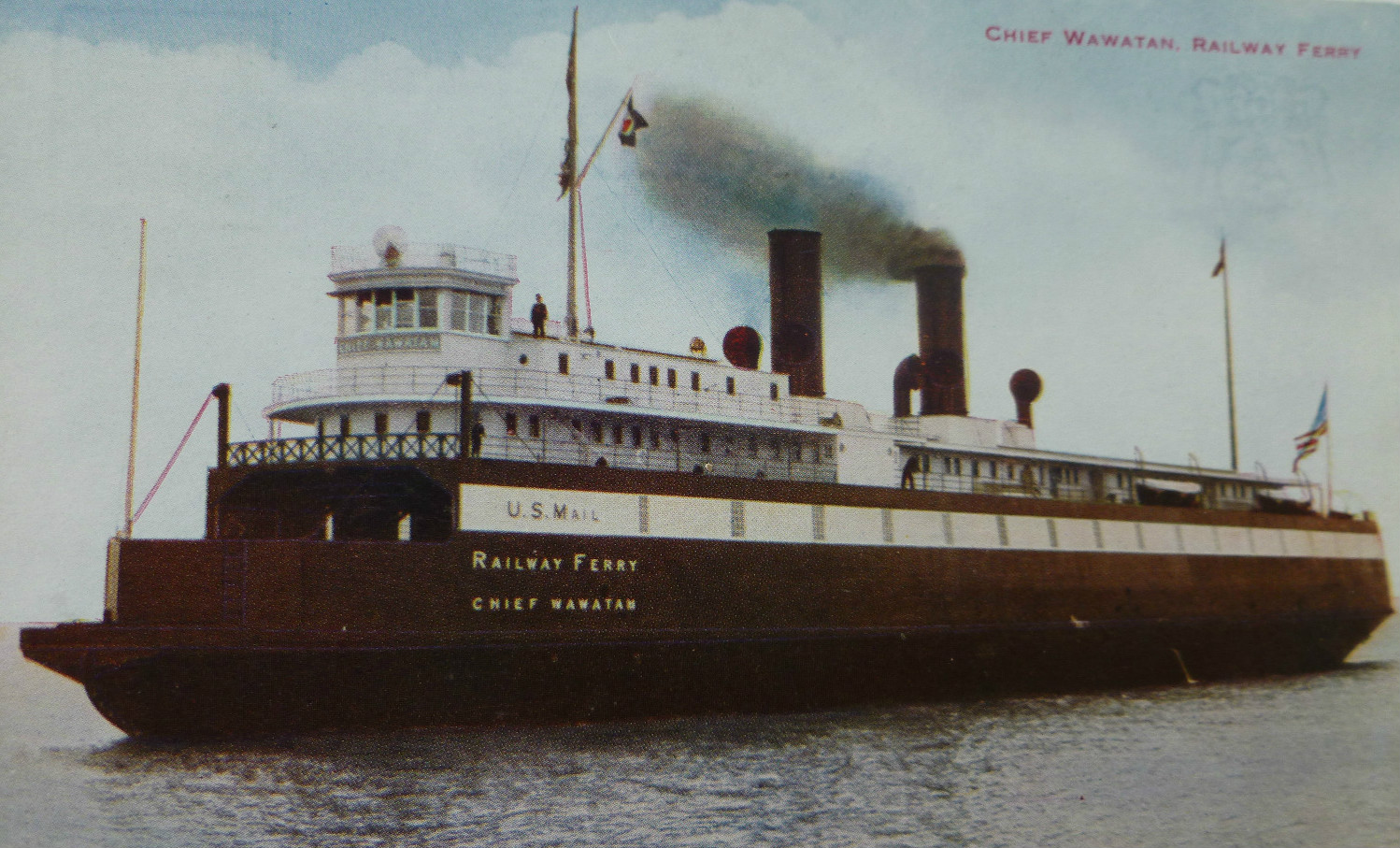 Postcard photo of the Mackinac Transportation Company train ferry, S.S. Chief Wawatam.